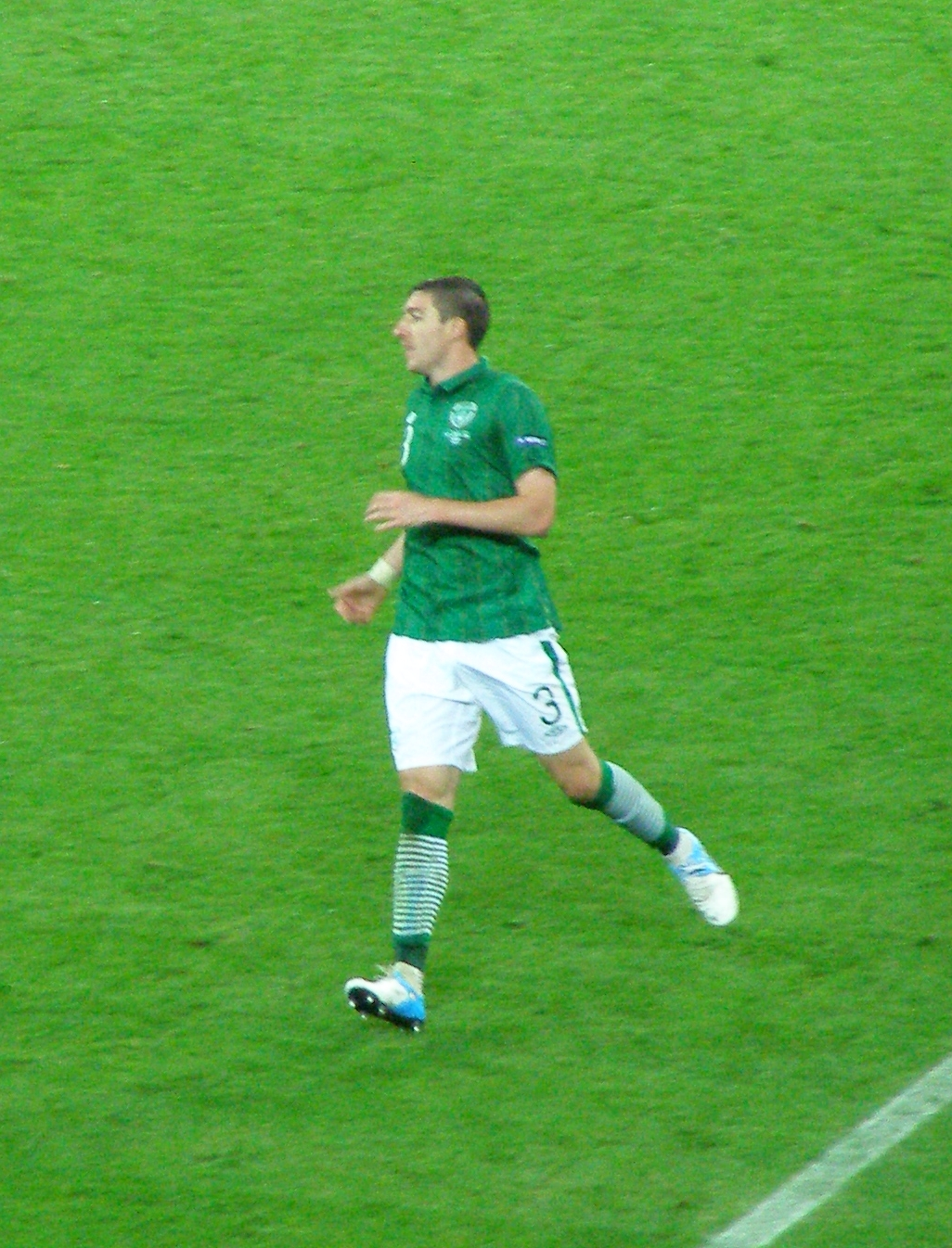 Gdańsk - PGE Arena - Euro 2012 - Group C match Spain - Rep. of Ireland